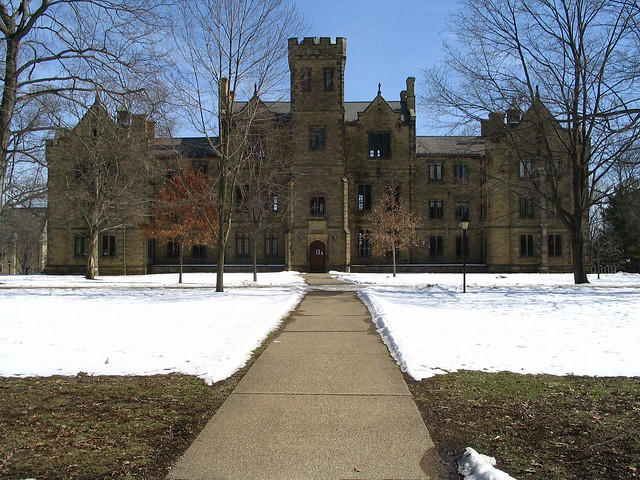 The Ascension Hall at the Kenyon College